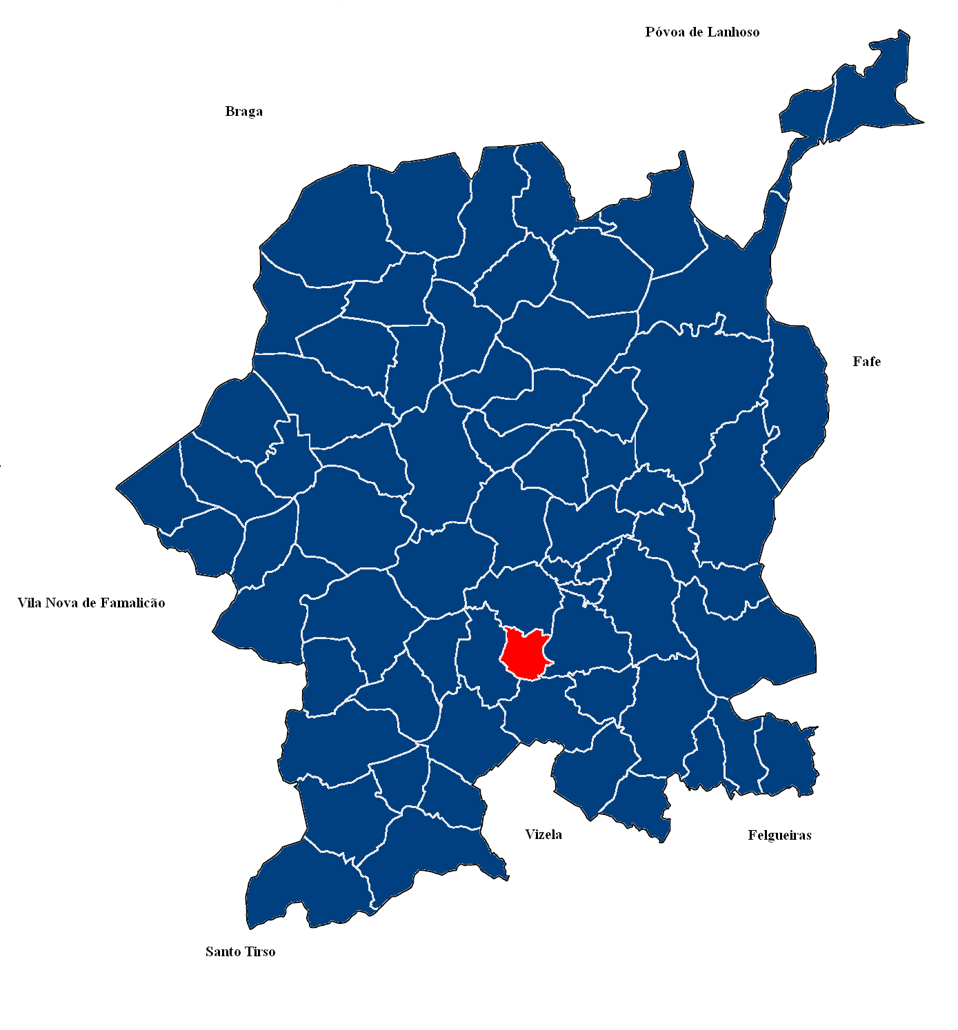 Map of Mascotelos parish, Guimarães Municipality, Portugal